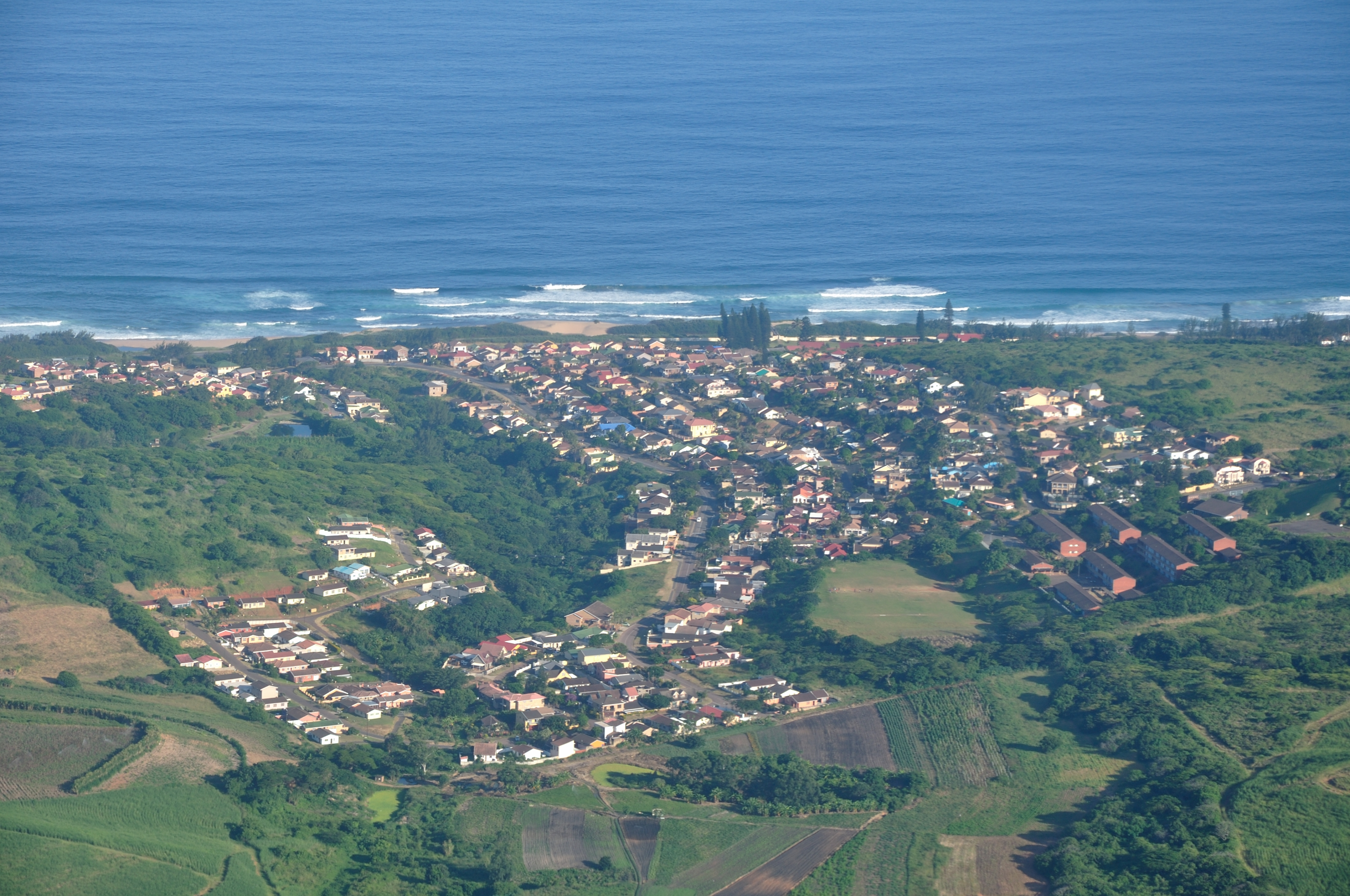 South Africa, imperssions of a flight from Durban to Johannesburg (for exact location see geodata)